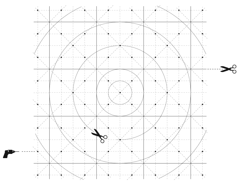 The OpenStructures grid, based on a square of 4x4 cm.